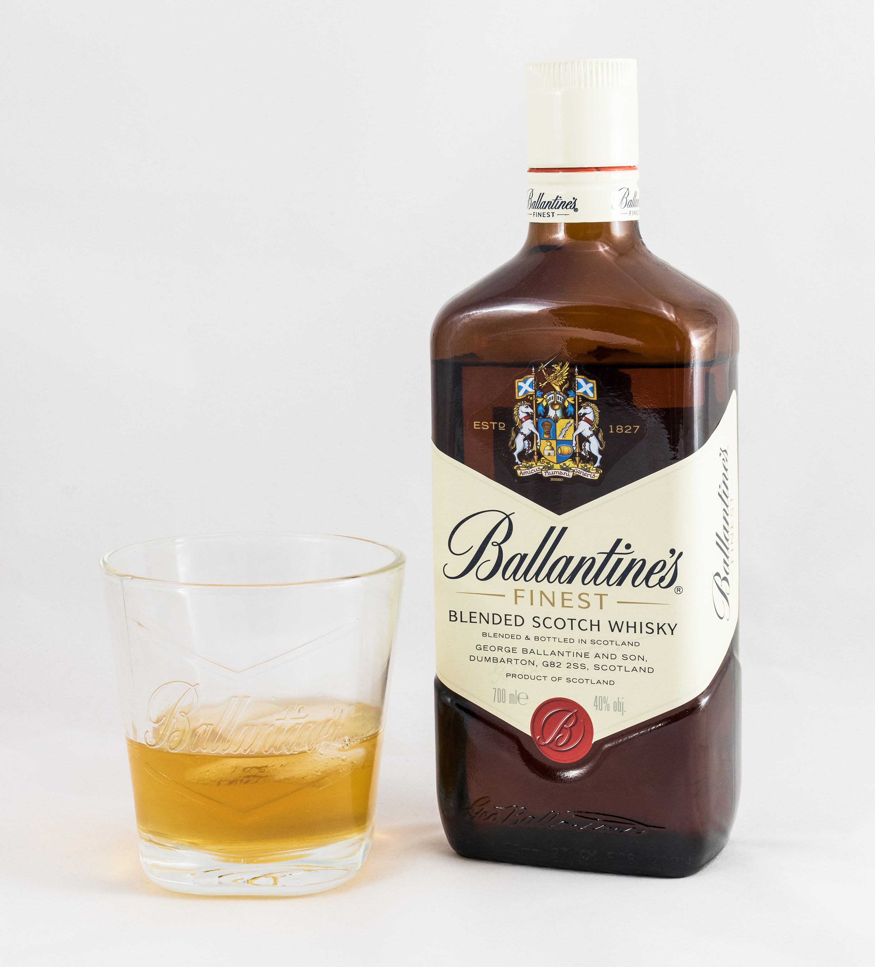 Ballantine's Finest scotch whisky